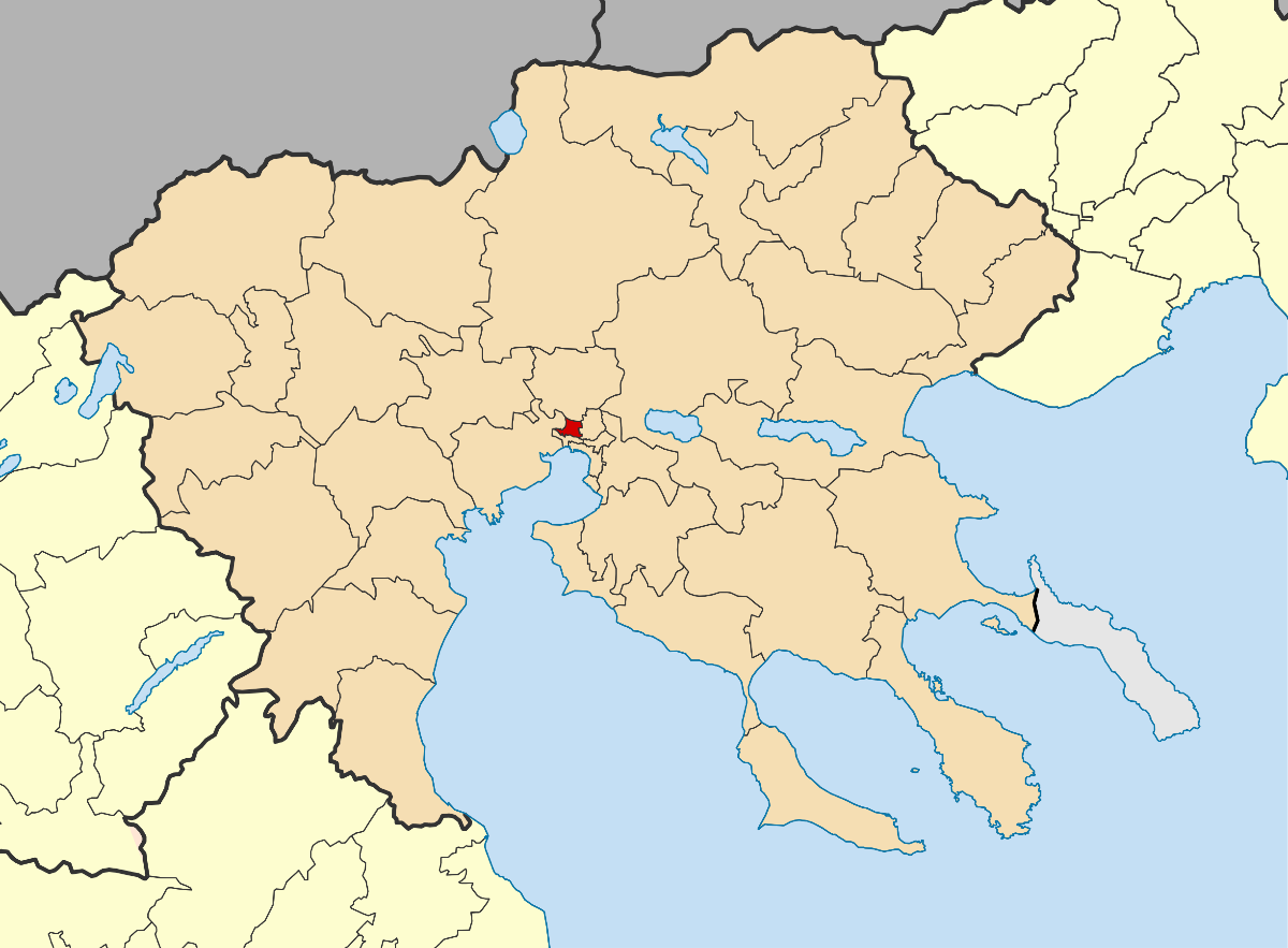 Locator map for Kordelio-Evosmos municipality in Greek region Central Macedonia (2011)